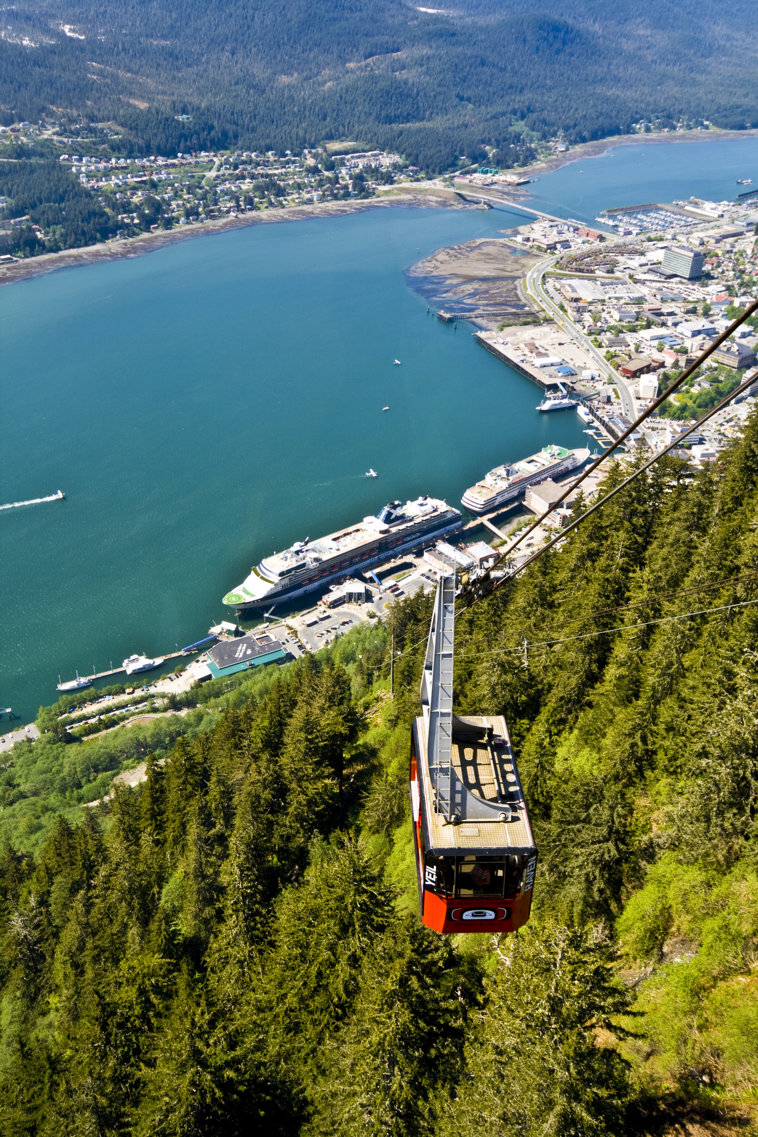 Mt. Roberts Tramway over Juneau Alaska